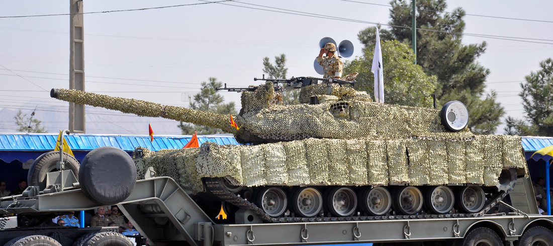 Iranian Zolfaghar 3 tank